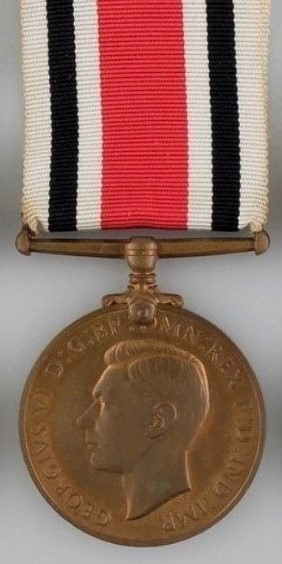 British medal for long service in the part time police, 1938-52 issue